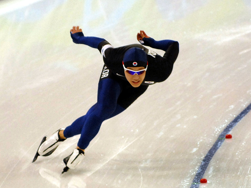 Mo Tae-Bum on his way to an Olympic 500 m title in the Vancouver 2010 Olympics.